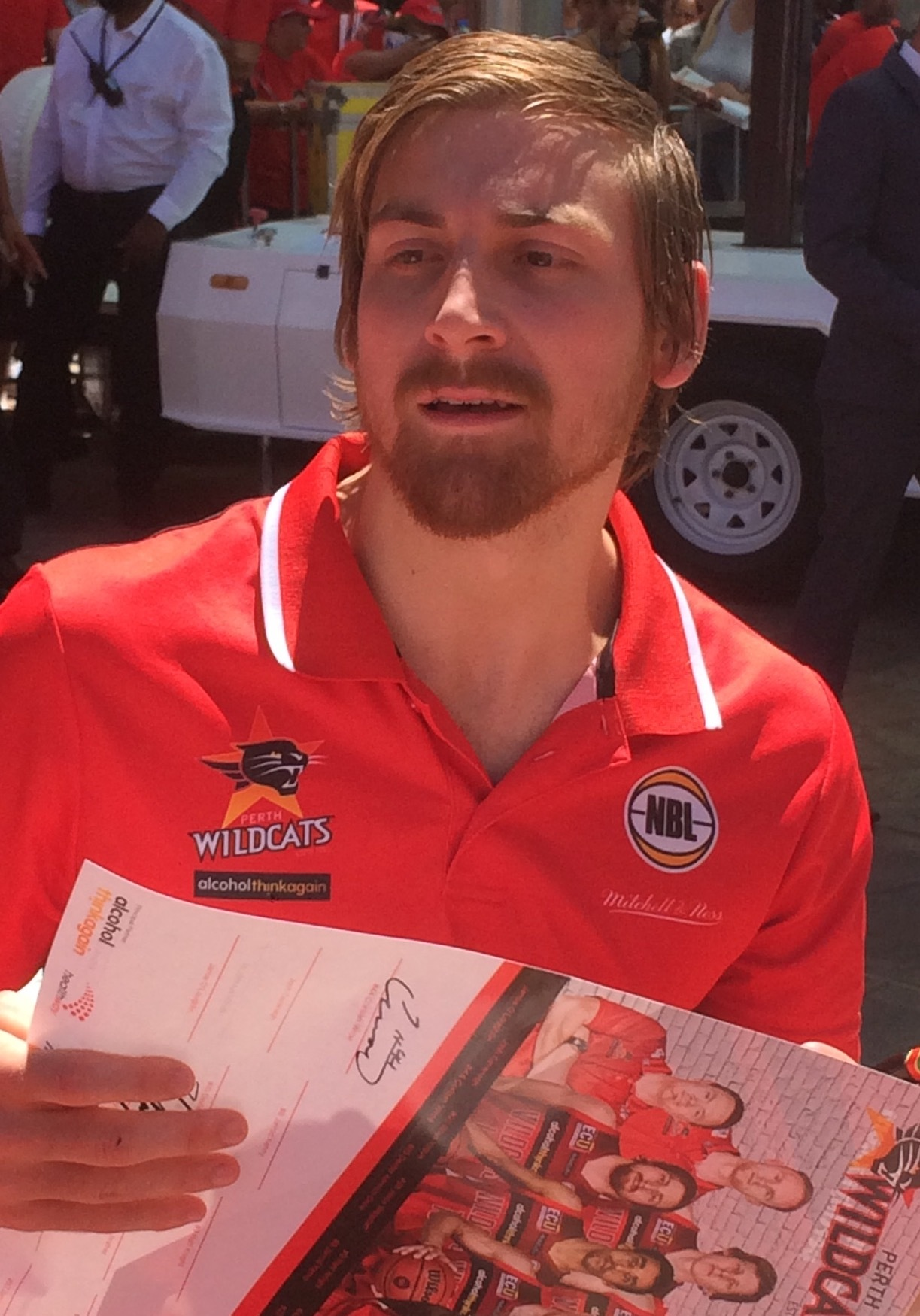 Corban Wroe signing autographs in March 2017